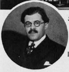 Vladimir Velmar-Janković (Serbian Cyrillic: Владимир Велмар-Јанковић; August 10, 1895 - August 12, 1976) was a Serbian writer